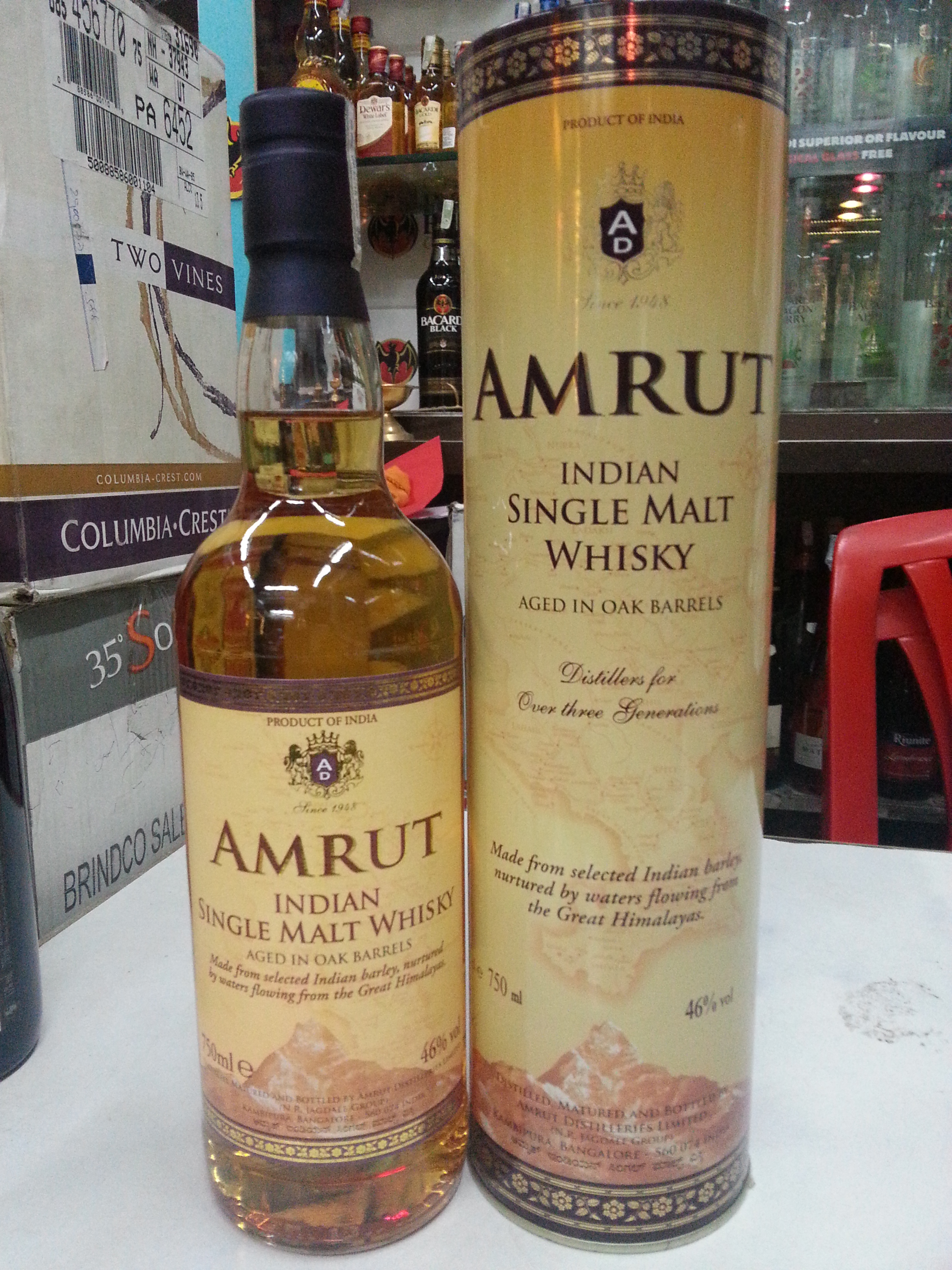 Amrut singlemalt whisky. One of the single malts from Amrut Distilleries. Along with this is the Amrut Fusion, selected 3rd best singlemalt in the world according to Jim murray's whisky bible 2010.